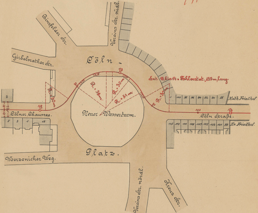 Plan of tramway around the Neuer Wasserturm at Kölnplatz, Düren